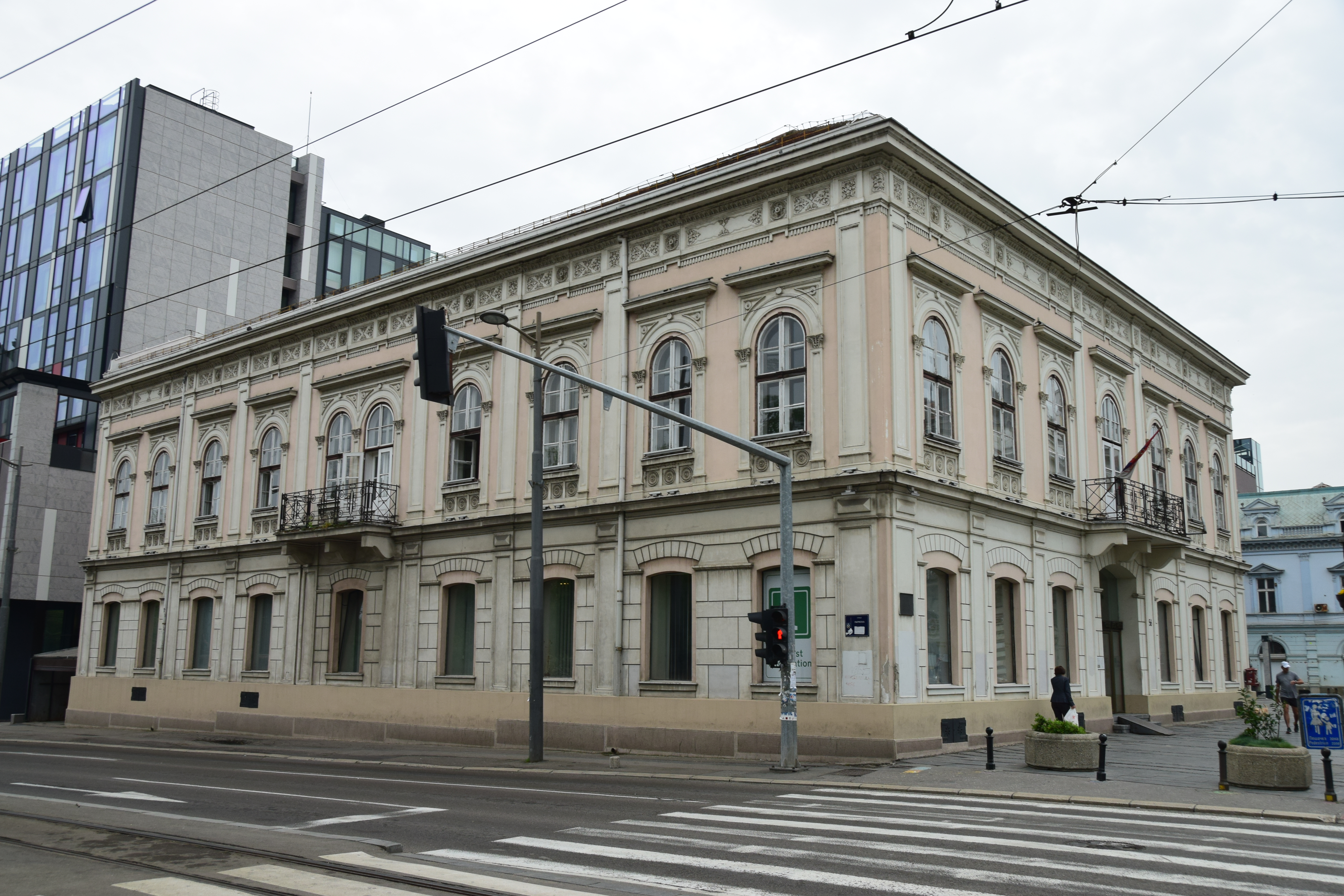 The building of the hotel "Srpska kruna" ("Serbian Crown") in Belgrade is built in 1869. In 1981 it was proclaimed for a Cultural heritage. Since 1986 in this building is Belgrade City Library.